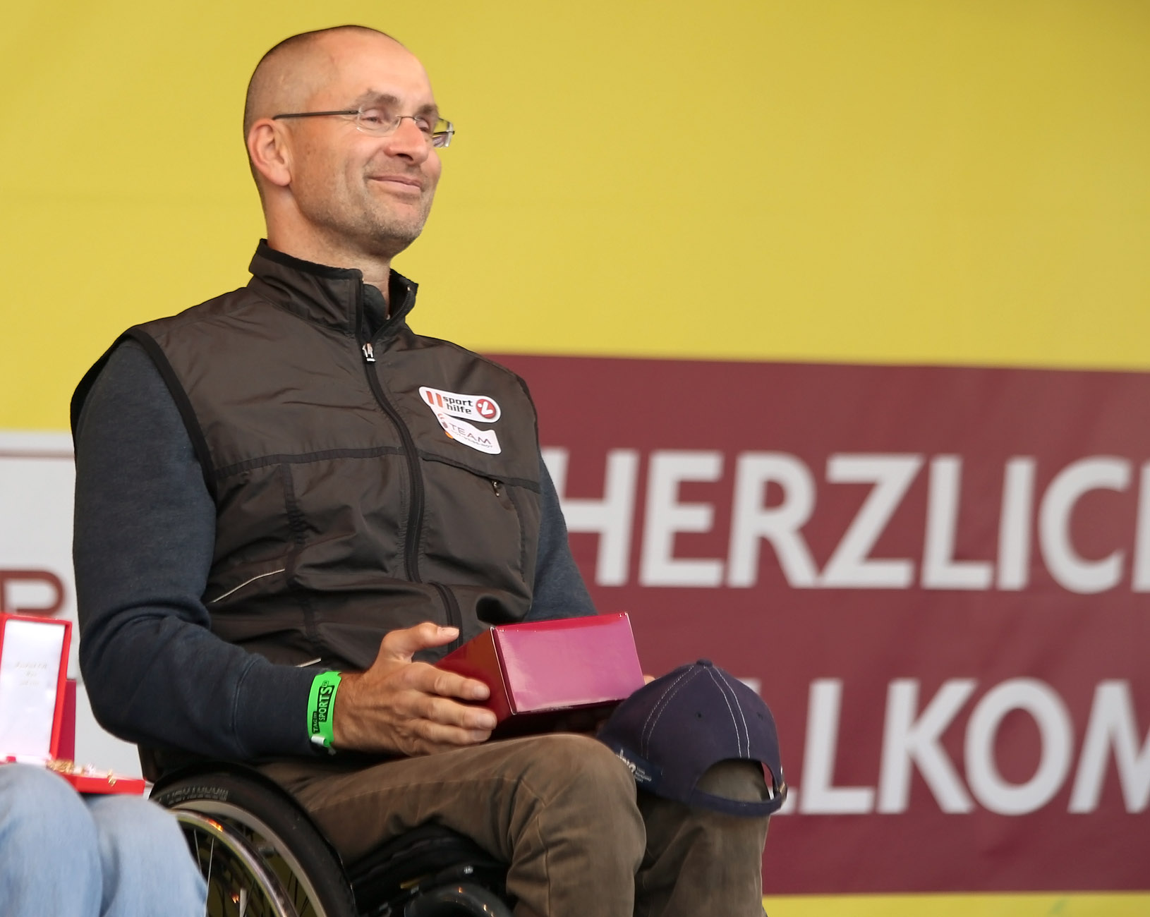 Christoph Etzlstorfer at the Tag des Sports (Day of Sports) 2013 on Heldenplatz in Vienna, Austria.